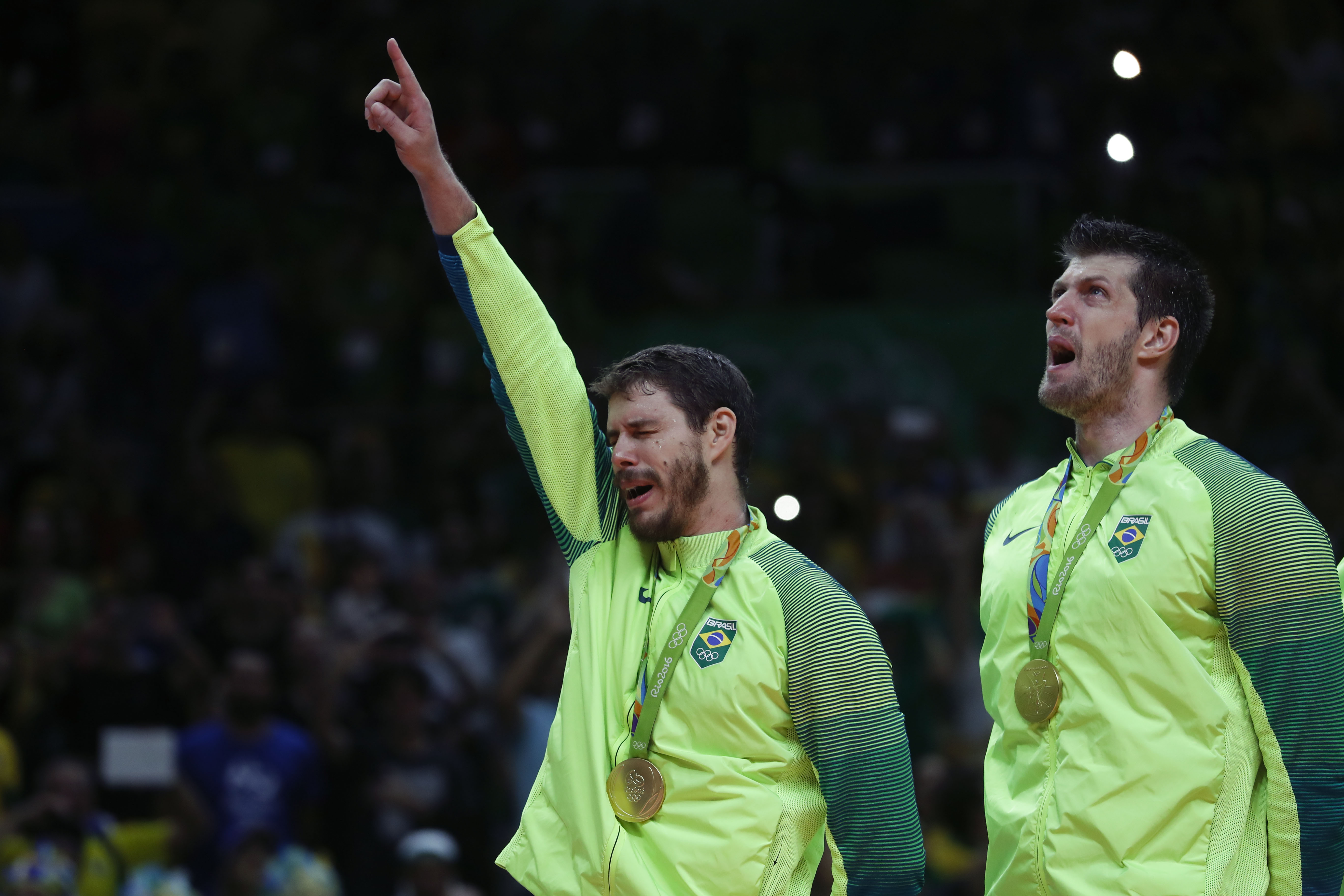 Rio de Janeiro - Seleção brasileira de vôlei ganha medalha de ouro ao vencer a Itália na final dos Jogos Olímpicos Rio 2016 no Maracanãzinho (Fernando Frazão/Agência Brasil)